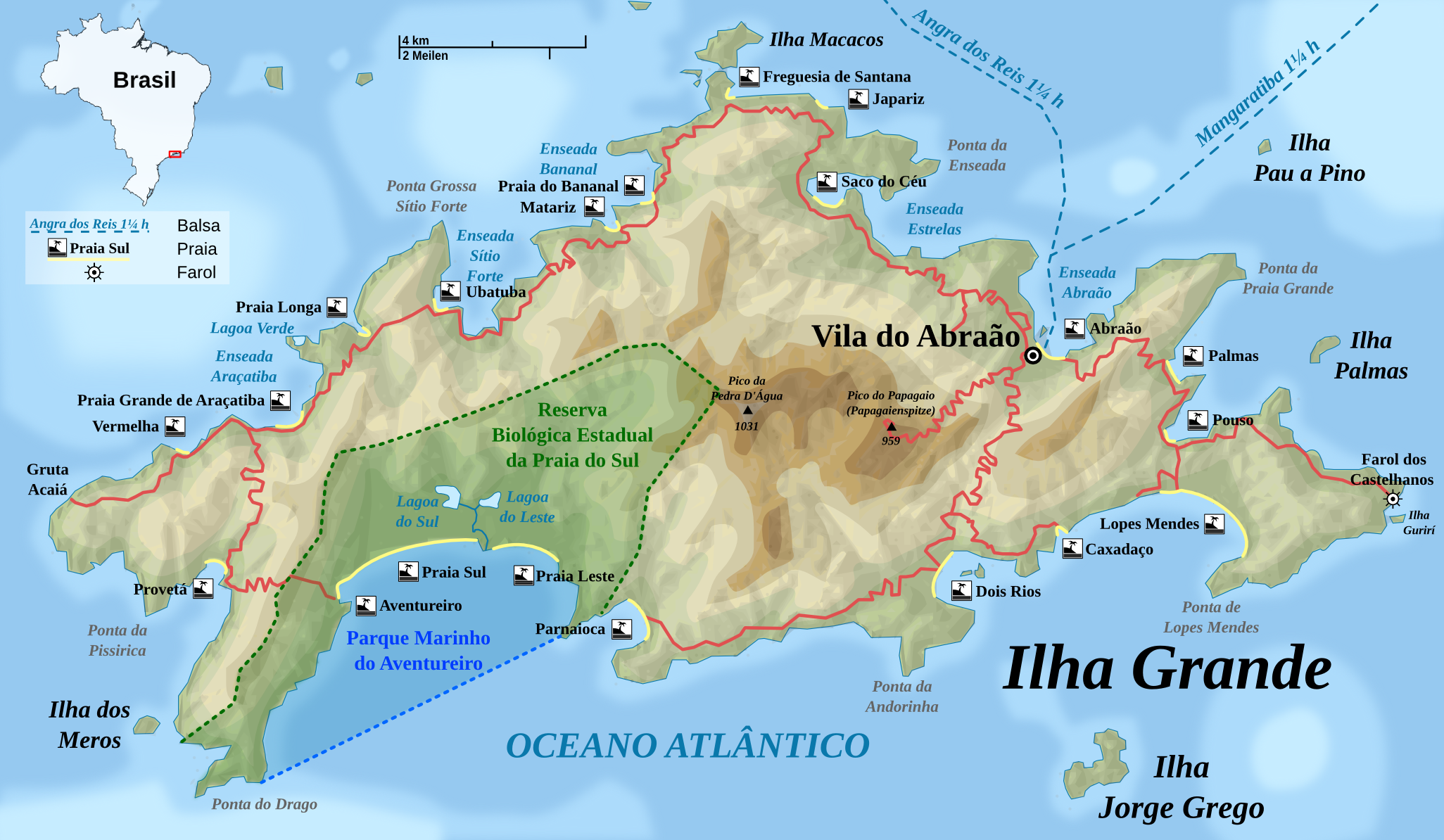 Detailed topographic map in Portuguese of Ilha Grande